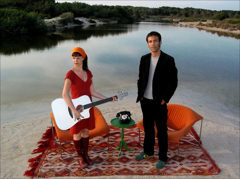 Vacabou. Juan Feliu and Pascale Saravelli.